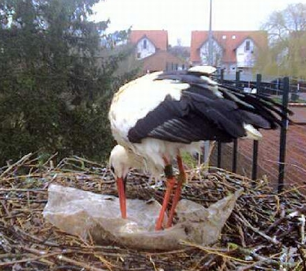 Stork's nest with plastic bag